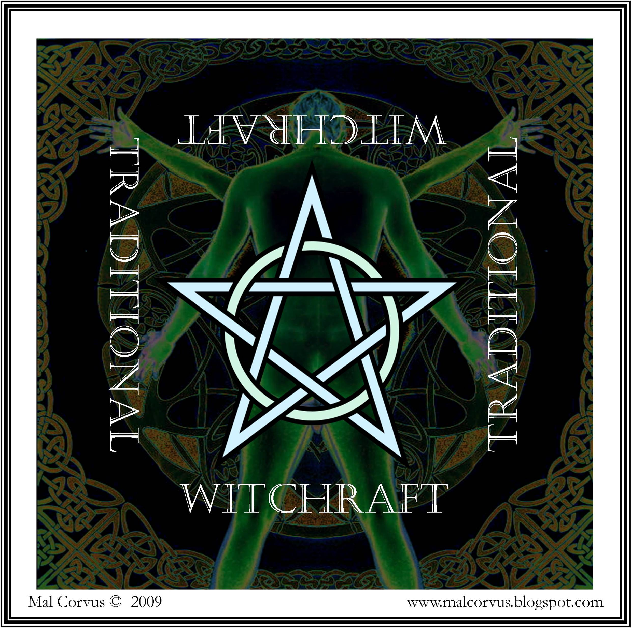 Traditional Witchcraft From Mal Corvus Witchcraft & Folklore artefact private collection owned by Malcolm Lidbury (aka Pink Pasty)